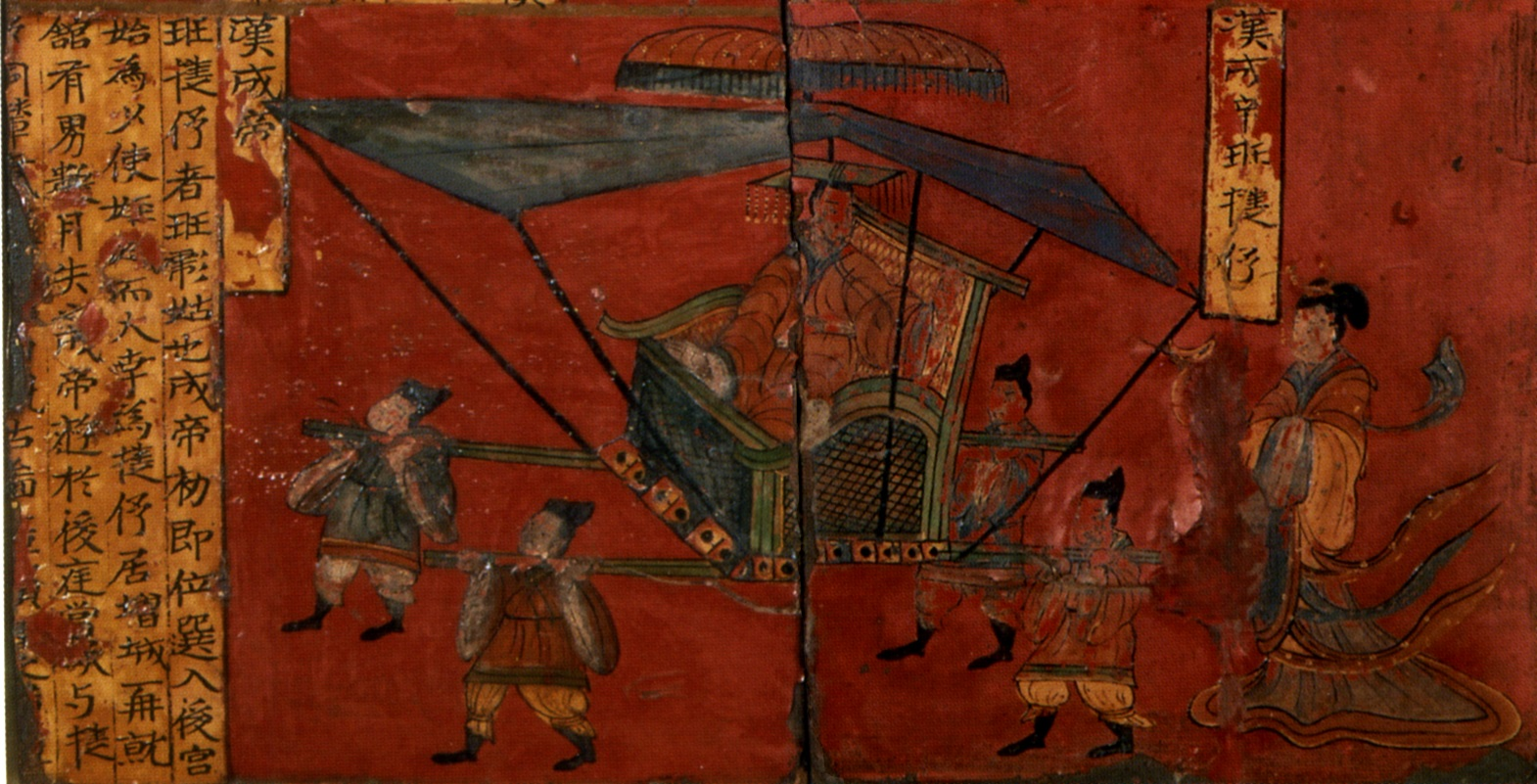 Register showing Consort Ban declining to ride with Emperor Cheng on his palanquin. The painting is part of a four-panel wooden folding screen measuring 81.5 cm in height; from the tomb of Sima Jinlong in Datong, Shanxi province, dated to the Northern Wei Dynasty (386–534 AD).